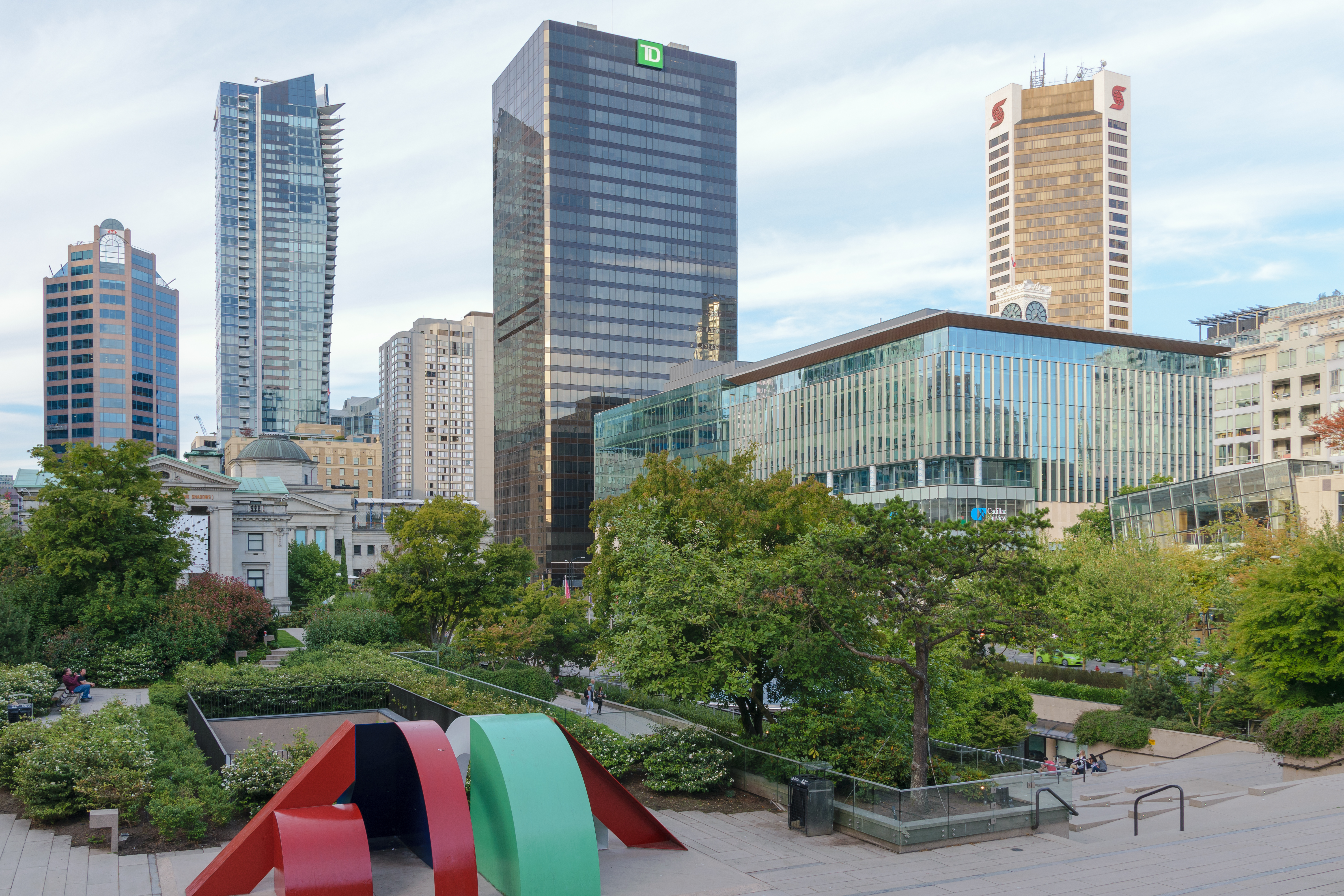 View of Downtown Vancouver (British Columbia, Canada) from Robson Square.